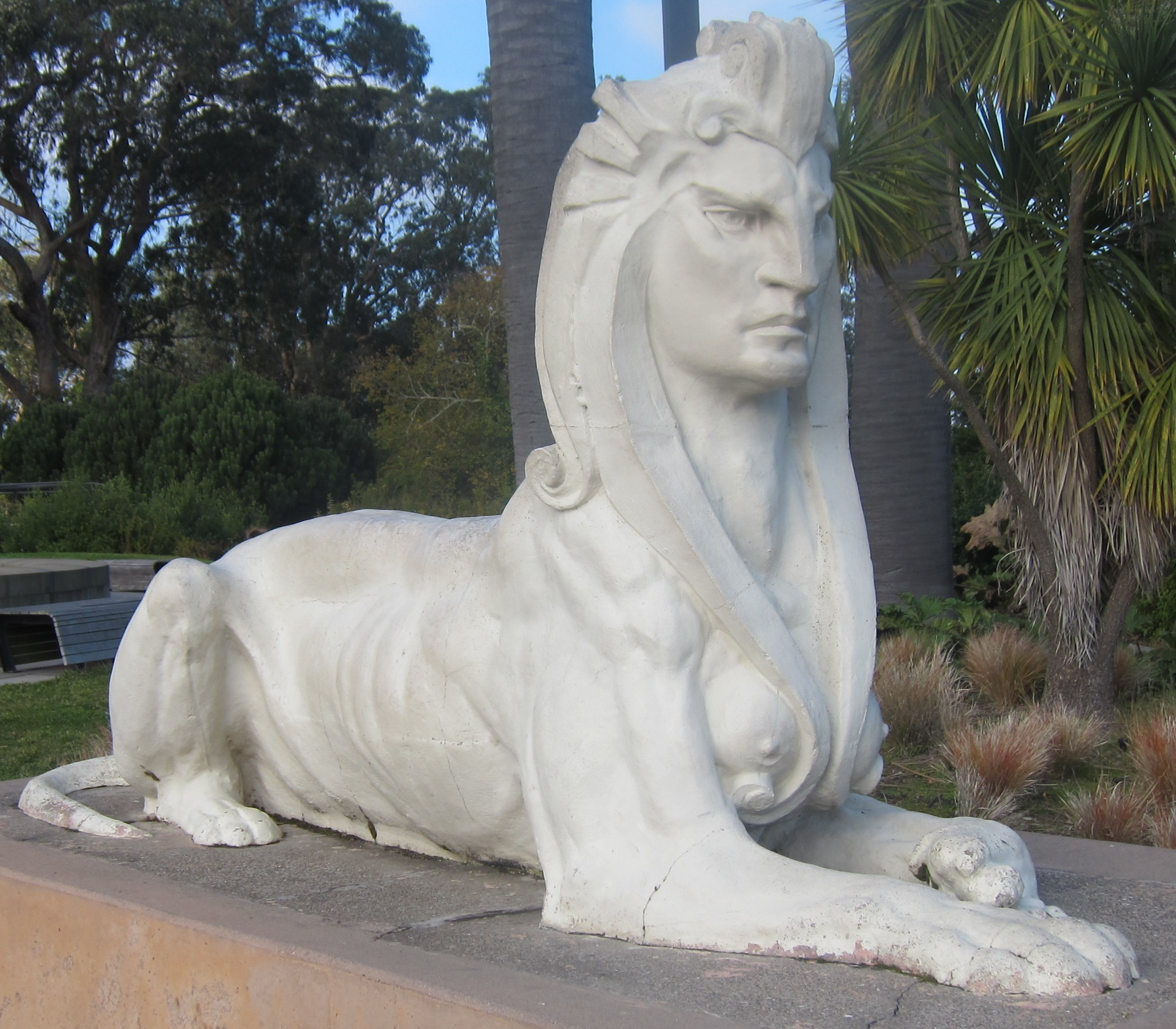 Sphinx — by Arthur Putnam, c. 1910, concrete sculpture. At the De Young Museum in Golden Gate Park, San Francisco, California